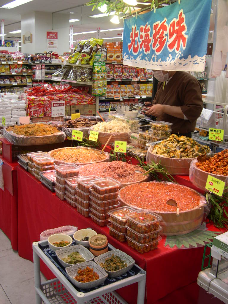 Japanese pickles on sale at a stall inside a Tokyo supermarket